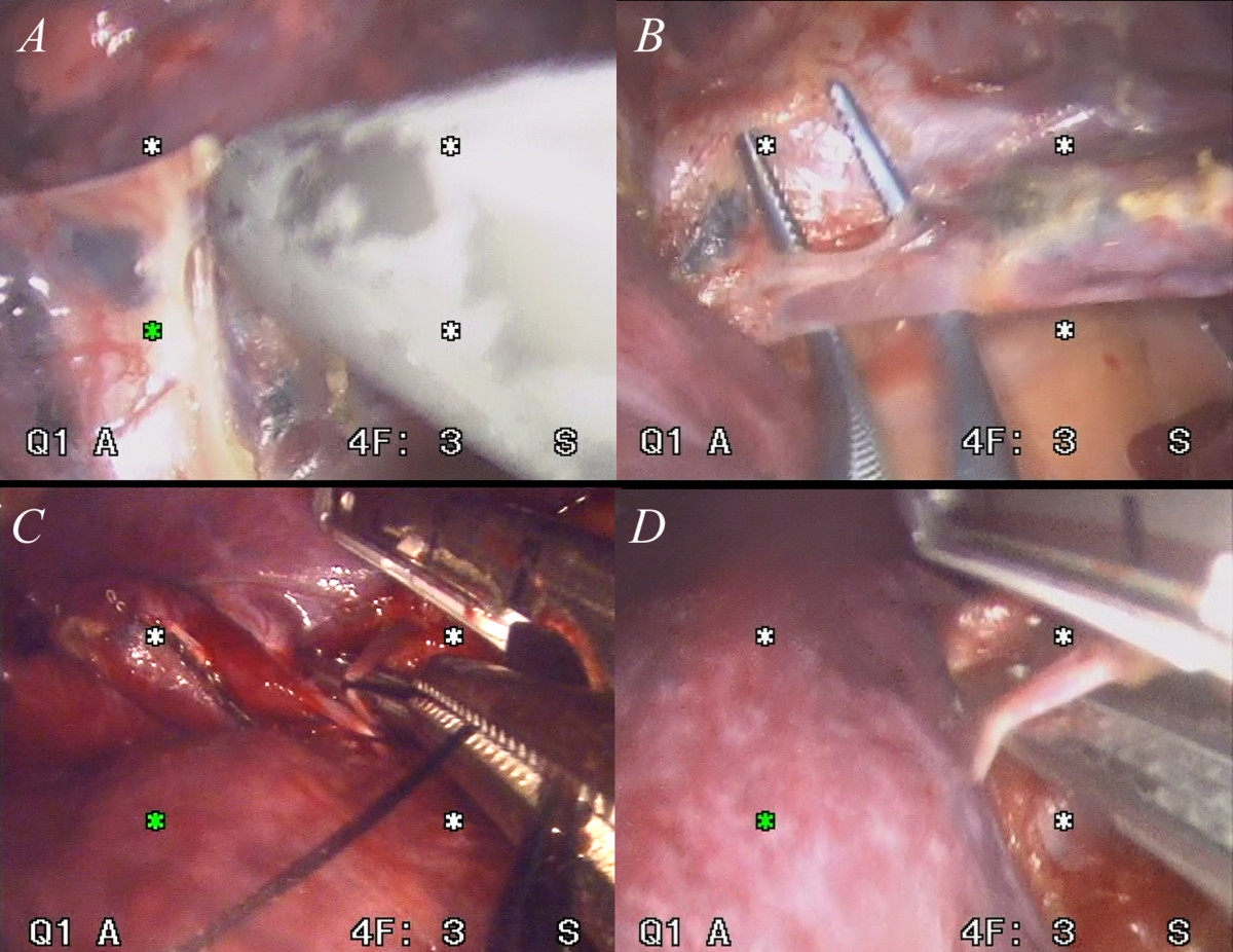 Before starting to dissect the interlobar structure, the fissure must be separated. In this case, we used a hook-shaped electrical cautery combined with blunt dissection with a peanut sponge to open the fissure(7A). After exposing the hilar vascular branches, a right angle clamp was used to loop the branch(7B) and then a silk tie was placed in order to exert traction the small branch(7C). With gentle traction of the branch, the stapler can be safely placed so as to separate the vessels. Surgeons have to make sure of the appropriateness of the relative position of the vessels and the stapler to allow a safe procedure(7D).